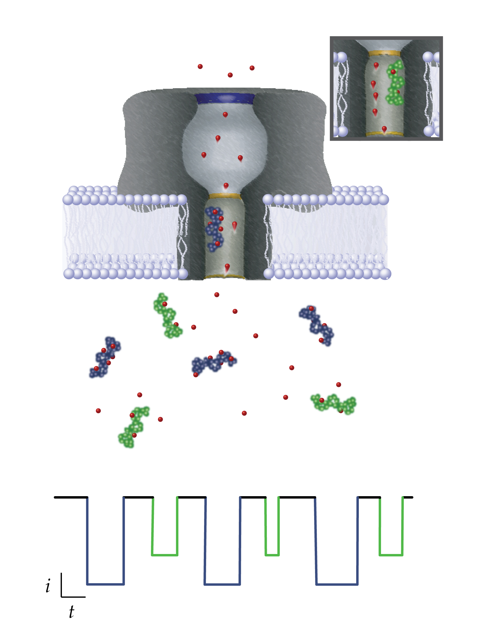 Each molecule passing through the nanopore can be identified by monitoring the change it causes in an ionic current flowing across the membrane. When different molecules (purple and green objects) enter the pore (green shown in inset), each reduces the current by a certain amount and time period (shown by corresponding color scheme in the current diagram below), depending on both its size and ability to attract nearby ions (red dots). The NIST model can be used to extract this information, which might be used to identify and characterize biomarkers for medical applications. Credit: NIST Disclaimer: Any mention of commercial products within NIST web pages is for information only; it does not imply recommendation or endorsement by NIST. Use of NIST Information: These World Wide Web pages are provided as a public service by the National Institute of Standards and Technology (NIST). With the exception of material marked as copyrighted, information presented on these pages is considered public information and may be distributed or copied. Use of appropriate byline/photo/image credits is requested.